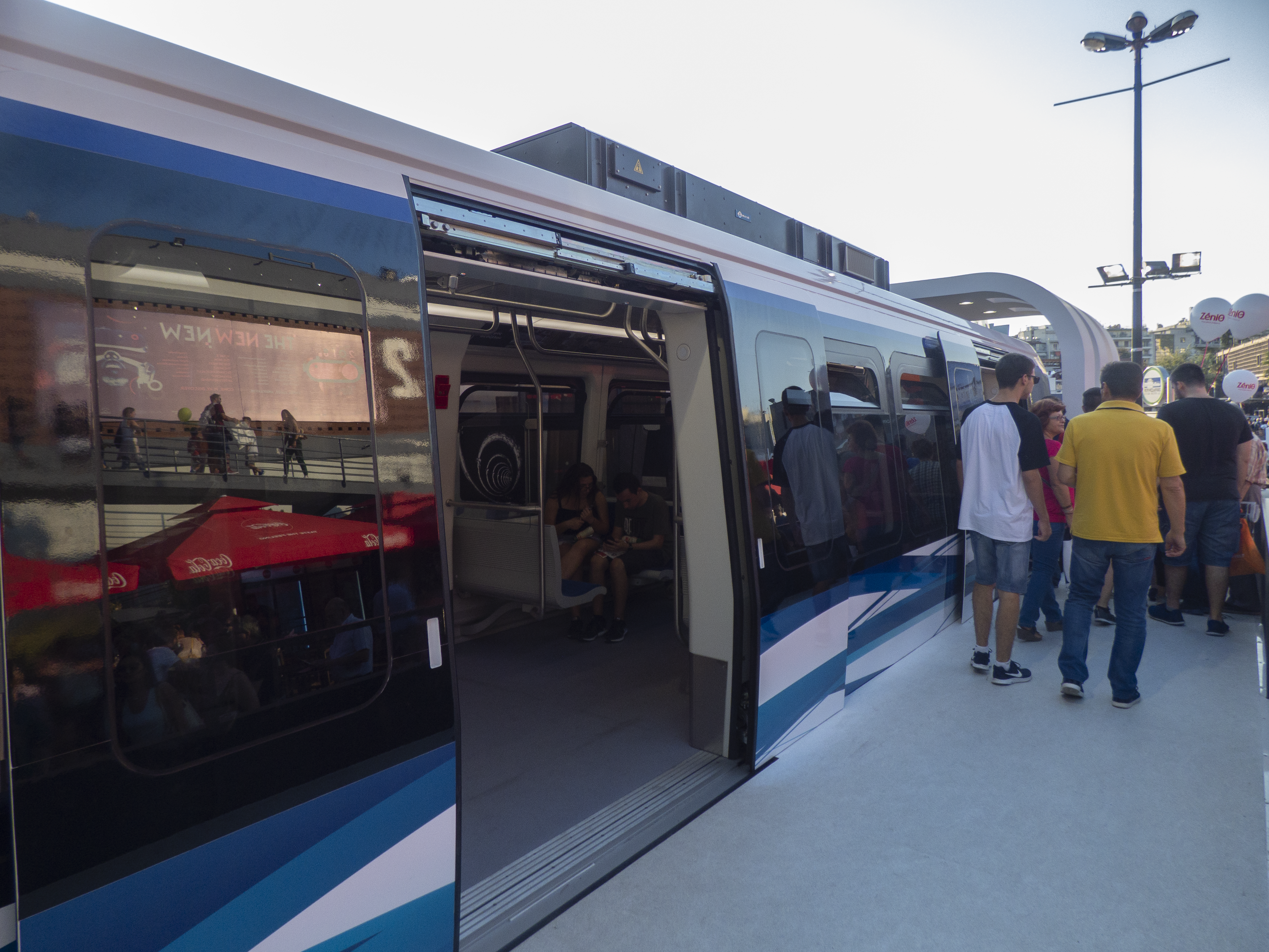 Thessaloniki Metro Ansaldo Breda Driverless Metro carriage, 15 September 2018